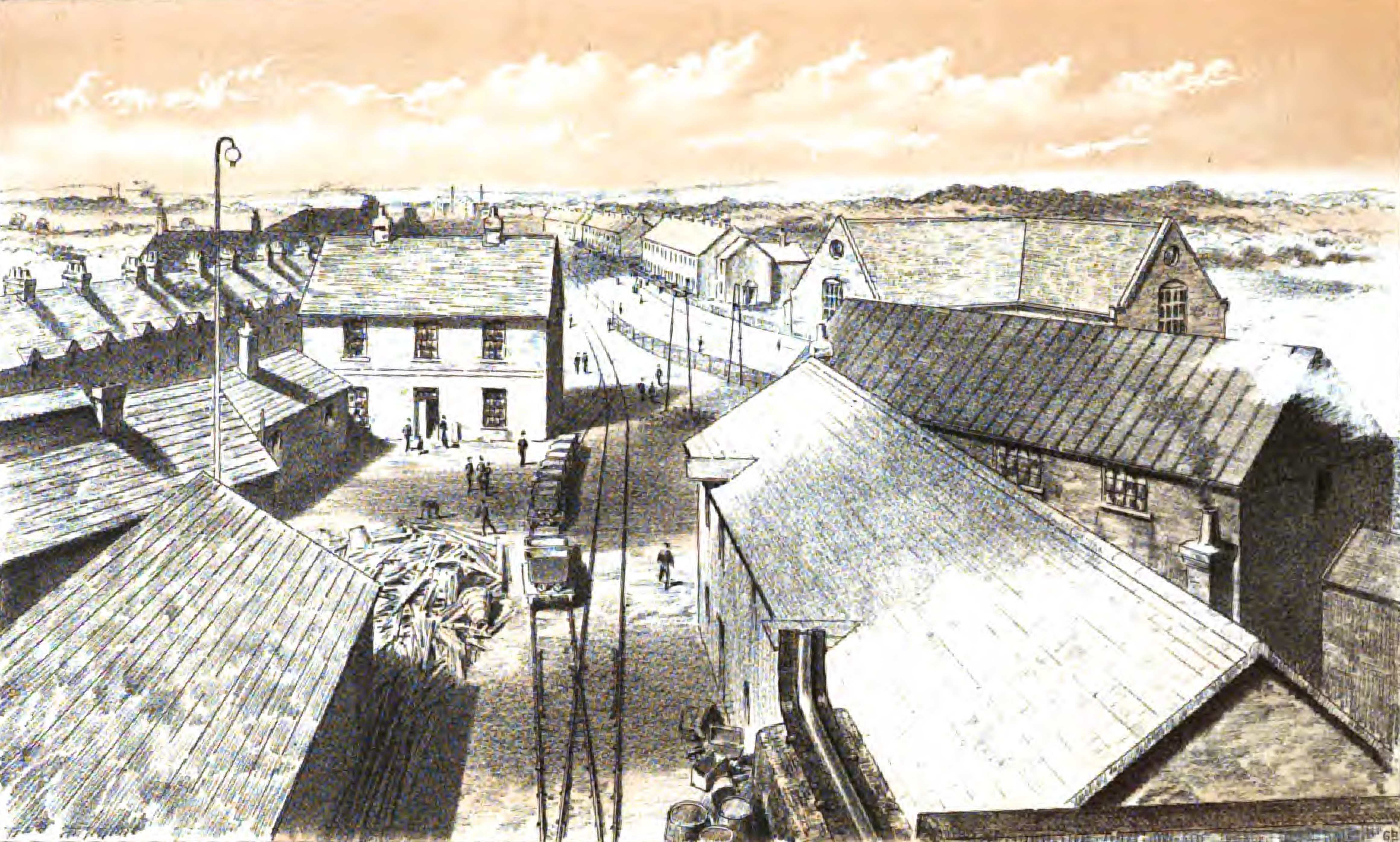 The Works, Sudbrook